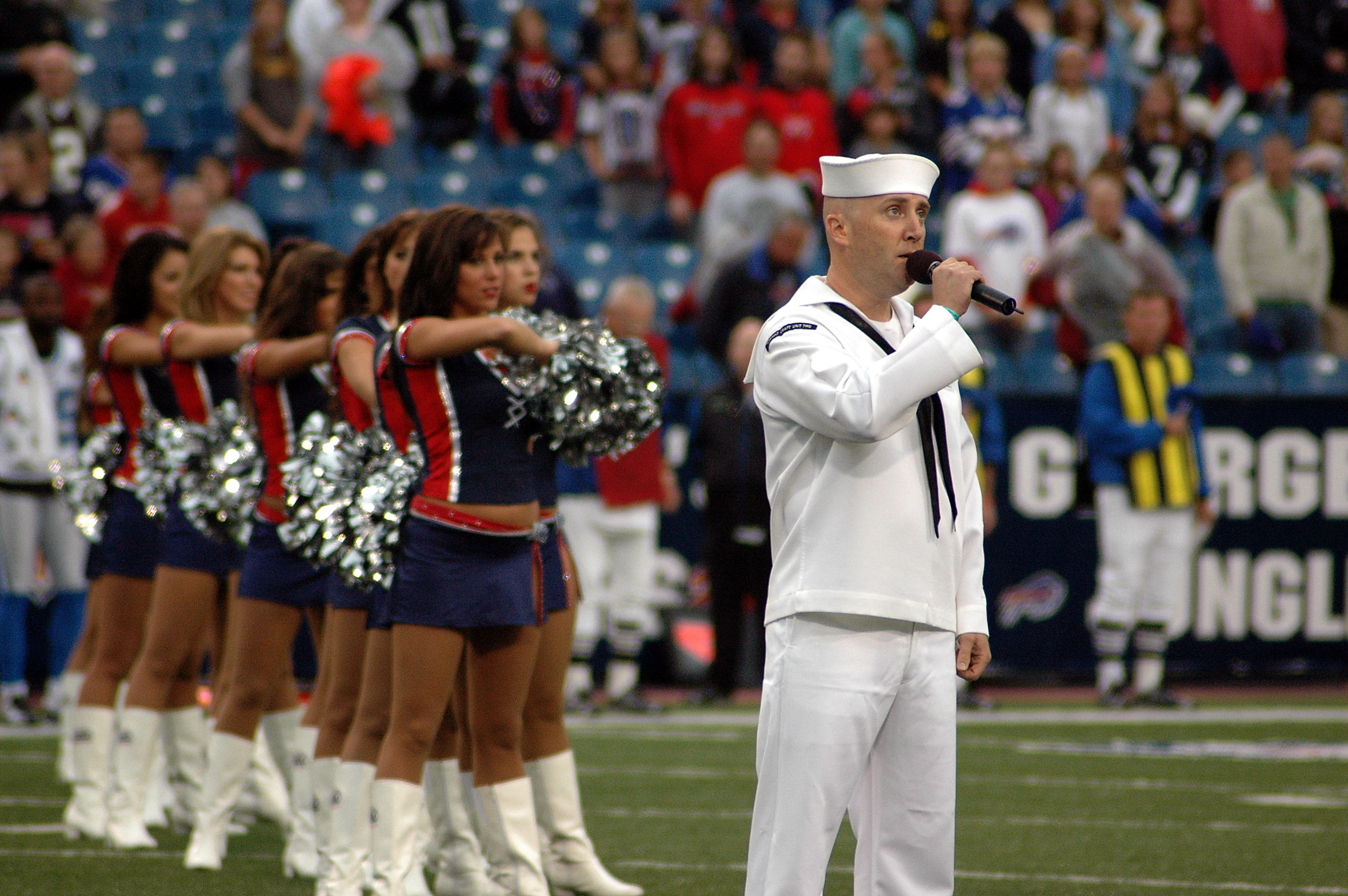 U.S. Navy Boatswain's Mate 1st Class Dan Green sings the national anthem Aug. 28, 2008, at Ralph Wilson Stadium in Buffalo, NY, before an NFL pre-season game during Buffalo Navy Week. The stadium is home of the Buffalo Bills. VIRIN: 080828-N-7975R-002